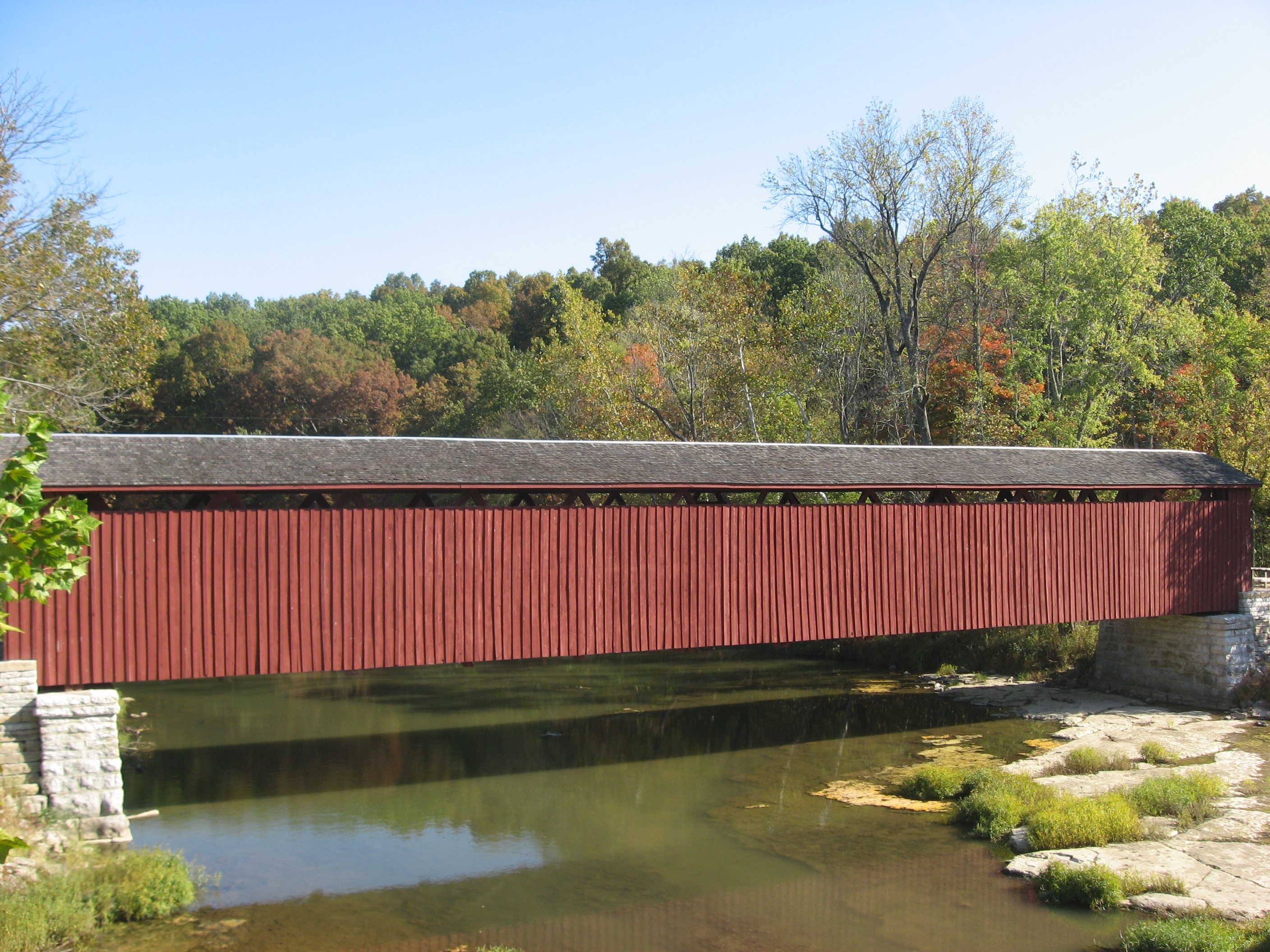 Southern (downstream) side of the Cataract Covered Bridge, which spans the White River near Cataract in Jennings Township, Owen County, Indiana, United States. Built in 1876, it is listed on the National Register of Historic Places.